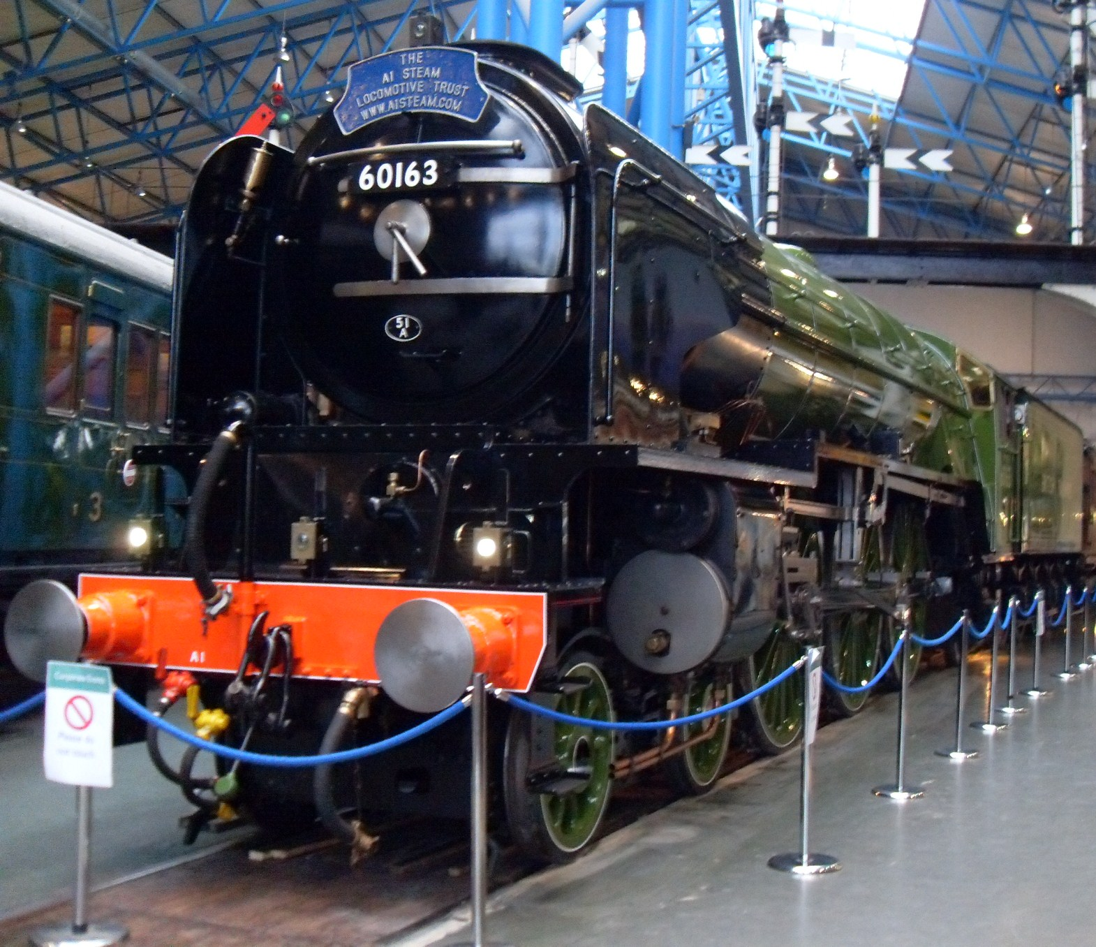 New build steam locomotive 60163 Tornado at the National Railway Museum the day after her public unveiling in her first proper livery, LNER Apple Green with British Railways markings on the tender